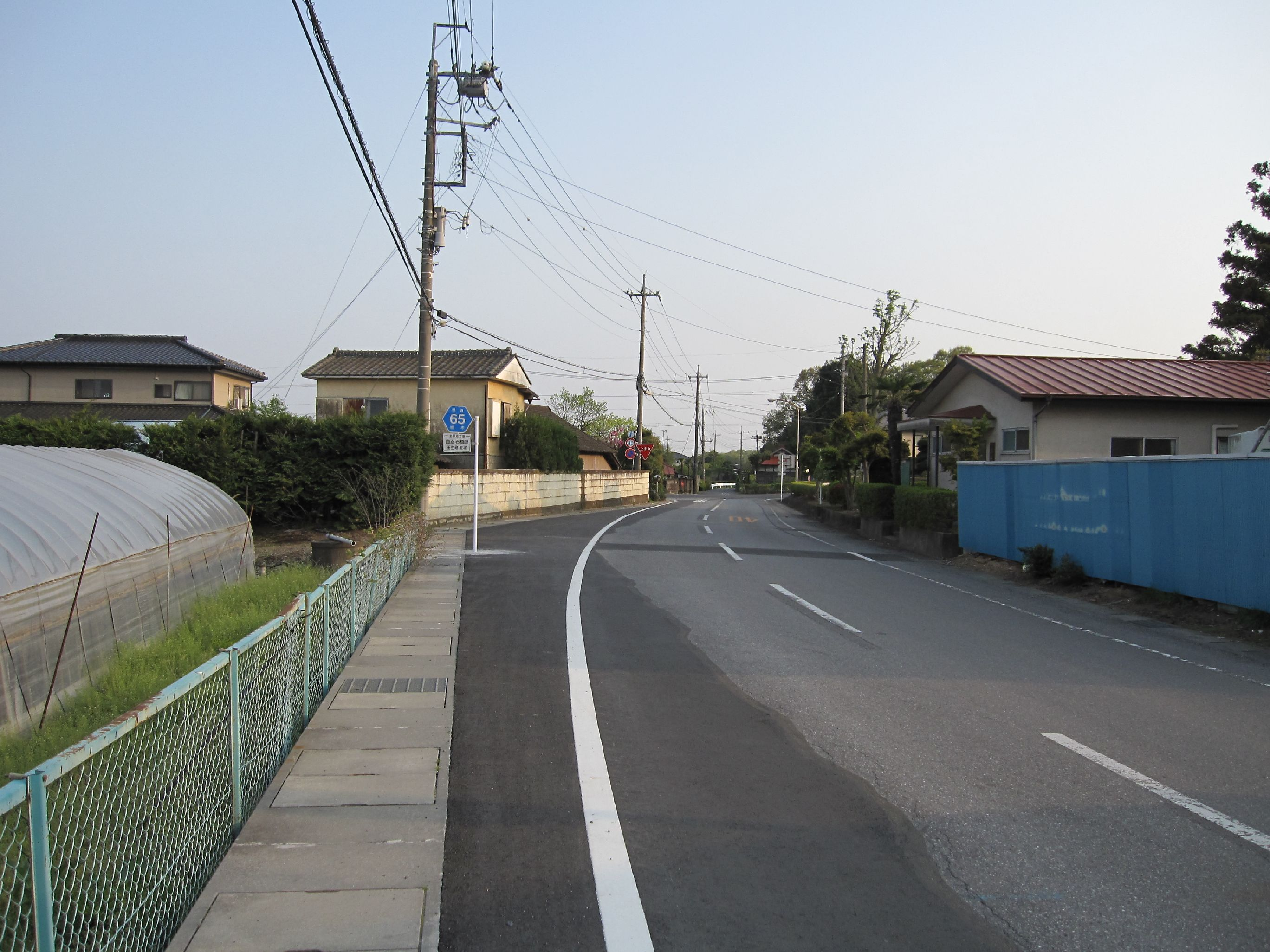 The Tochigi Prefectural Road Route 65 in Yasuzuka, Mibu Town